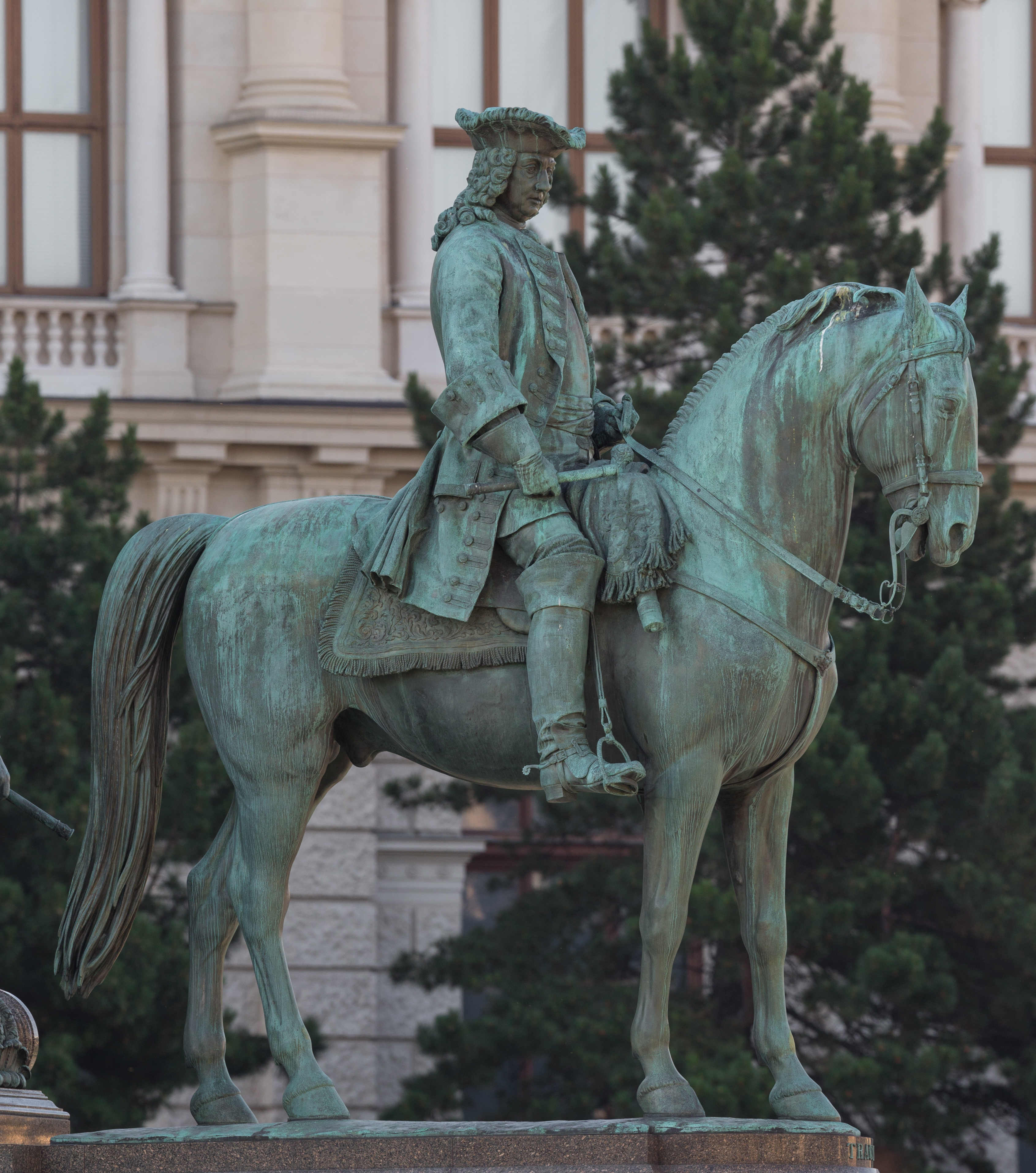 Maria-Theresia-square, Maria-Theresia monument, artist: Kaspar von Zumbusch (errected 1874-1888), main figure The making of this work was supported by Wikimedia Austria. For other files made with the support of Wikimedia Austria, please see the category Supported by Wikimedia Österreich.